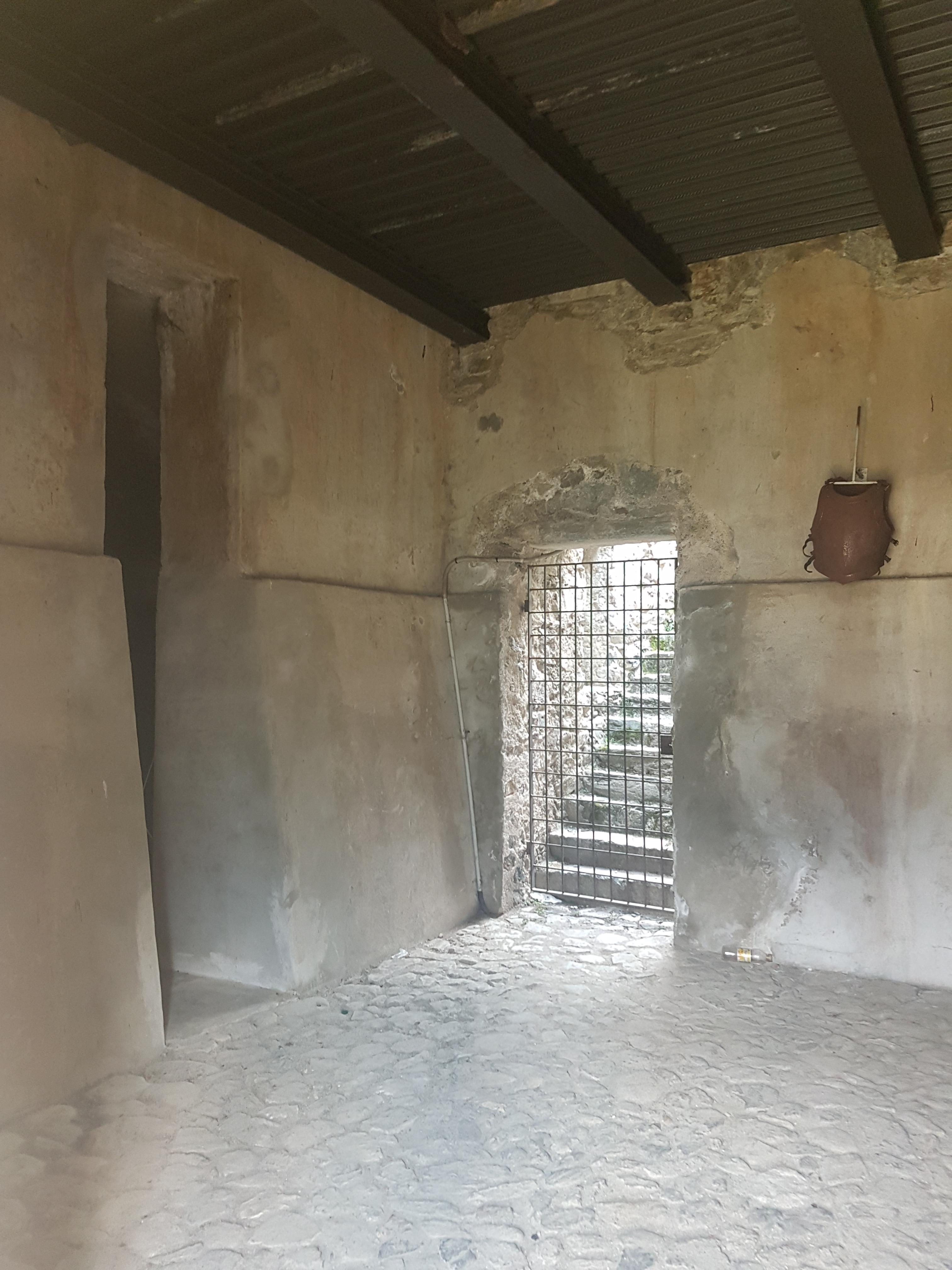 Castello Santa Maria in Tirano.